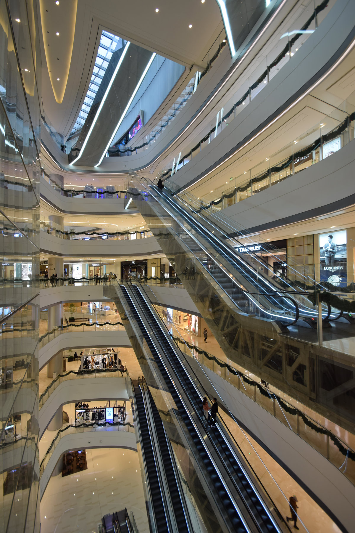 Atrium of Chengdu International Finance Square (Chengdu IFS)